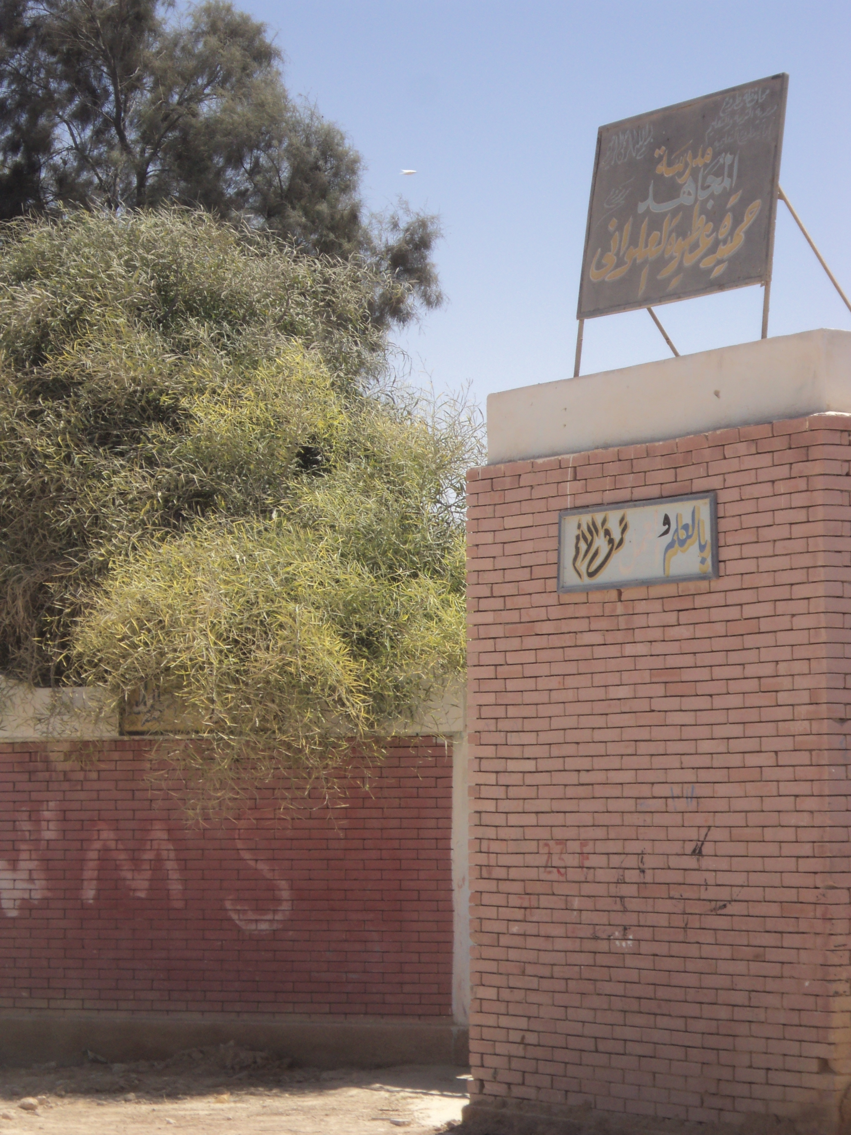 A school in the Egyptian city of Mersa Matruh.